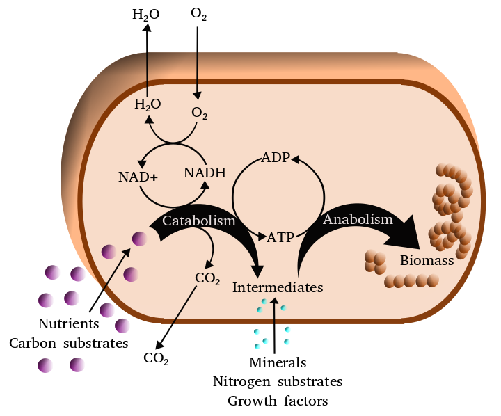 Aerobic metabolism